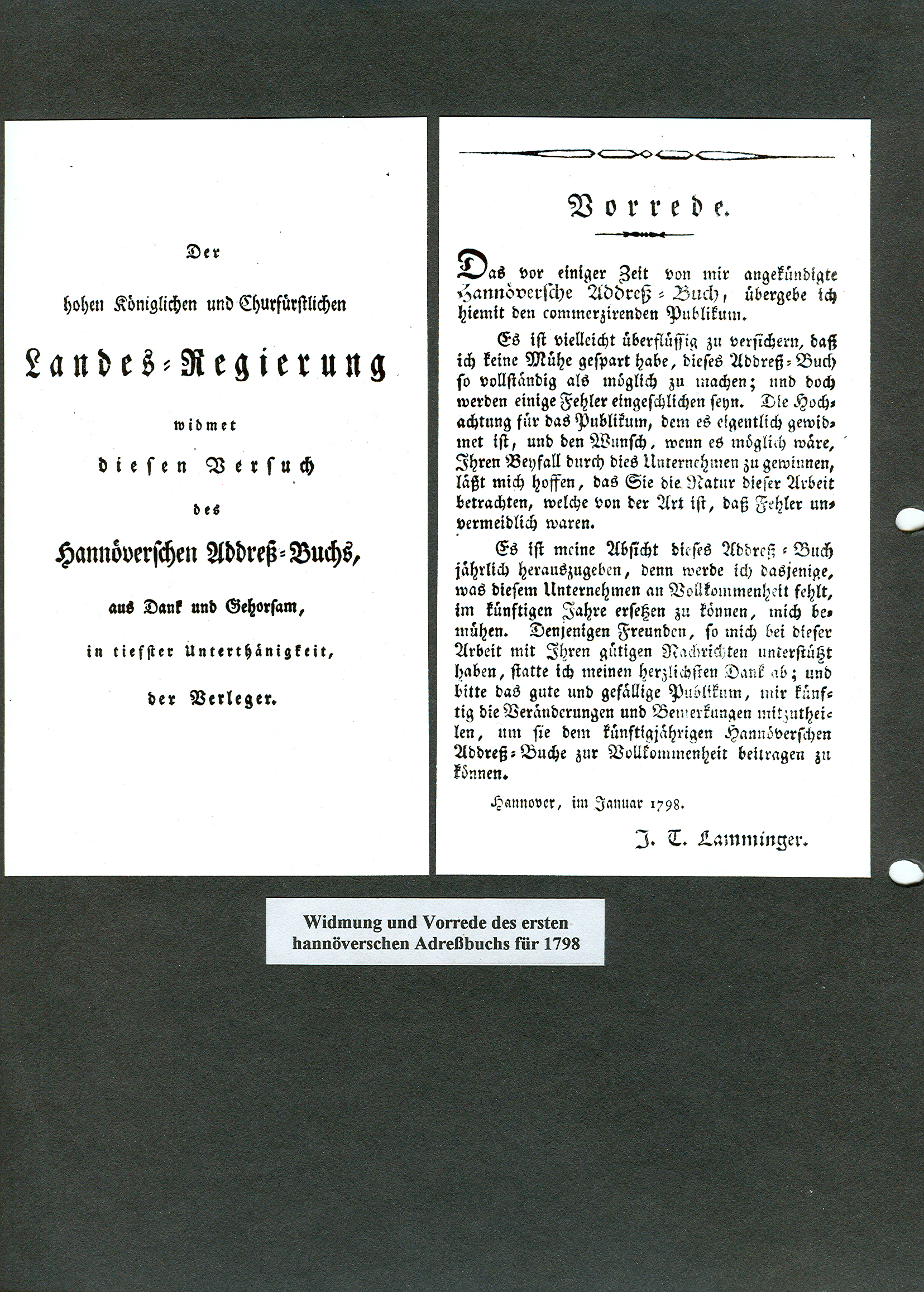 Ludwig Horner had photographed and monted on black paperboard the photos of the devocation and the preamble of the first adress book of Hanover of 1798 made and published by Johann Thomas Lamminger